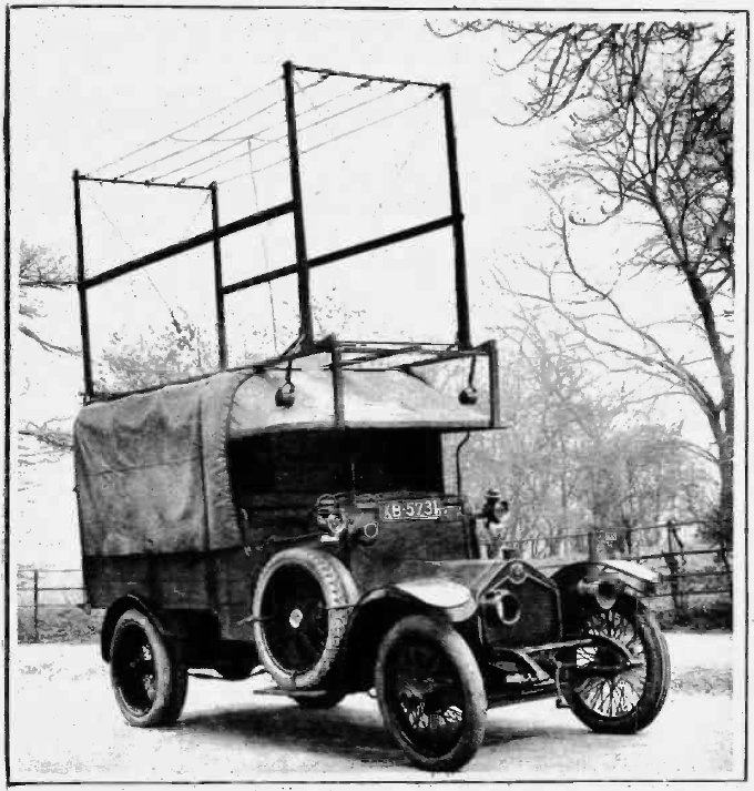 The first radio-equipped vehicle used by Scotland Yard, the British metropolitan London police force, in 1924. It had an early vacuum tube radio transmitter and receiver with a radio operator in the back, so it could keep in touch with headquarters at crime scenes. The wire T aerial on top could be folded down so it could pass under low bridges.